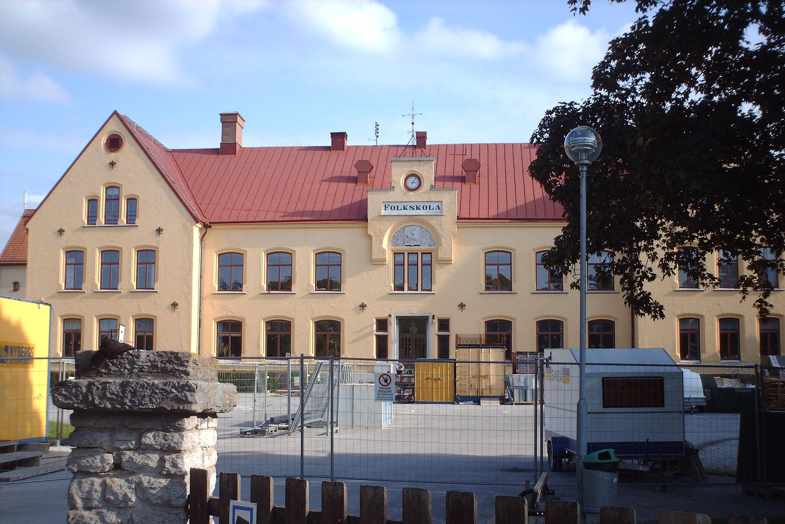 Solberga School, Visby, Sweden